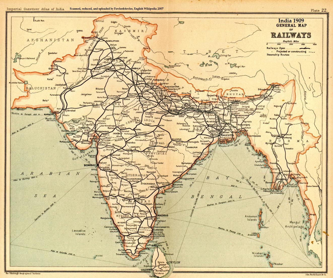 A general map of Indian railways, 1909. Scanned and reduced from personal copy of Imperial Gazetteer of India, volume 25 (Atlas), Oxford University Press, 1909, by Fowler&fowler«Talk» 05:05, 18 September 2007 (UTC)